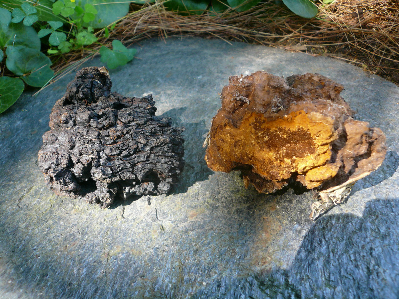 Inonotus obliquus, the medicinal chaga mushroom, Connecticut River Watershed (Vermont, USA).